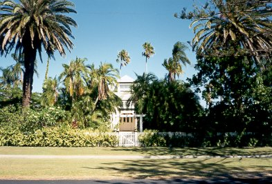 Brundah: A supberb unspoilt example of the fine domestic timber architecture once typical of this area set in a garden planted with palms, norfolk pines, bougainvillea and other shrubs typical of the period. (Chivell & Broadbent 1981)